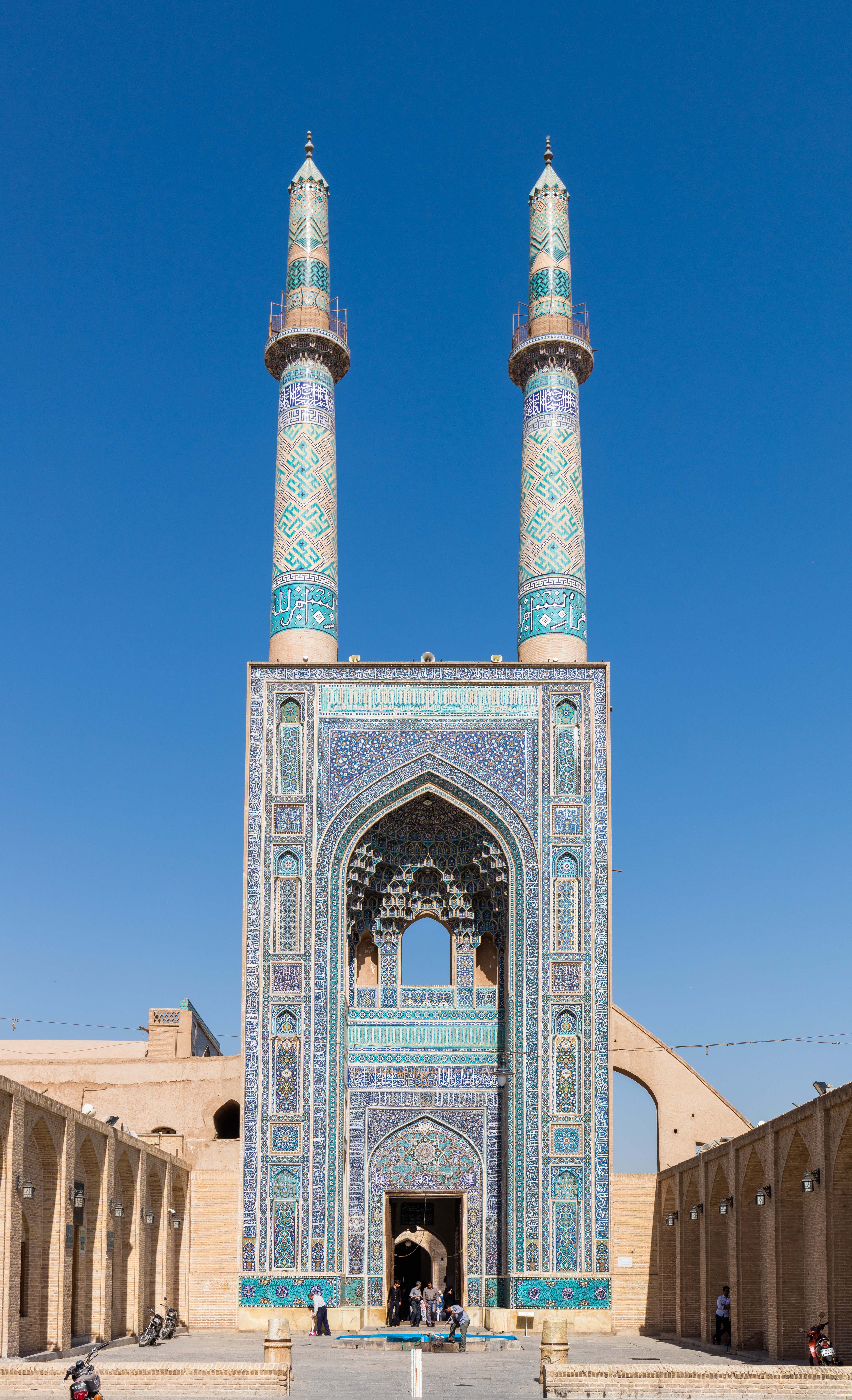 Masjed-e Jomeh mosque, Yazd, Iran